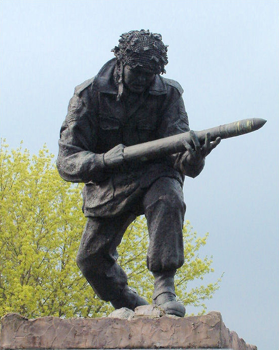 Statue of John Baskeyfield VC at Festival park, Etruria, Stoke-on-Trent. By Sculptors Steven Whyte and Michael Talbot